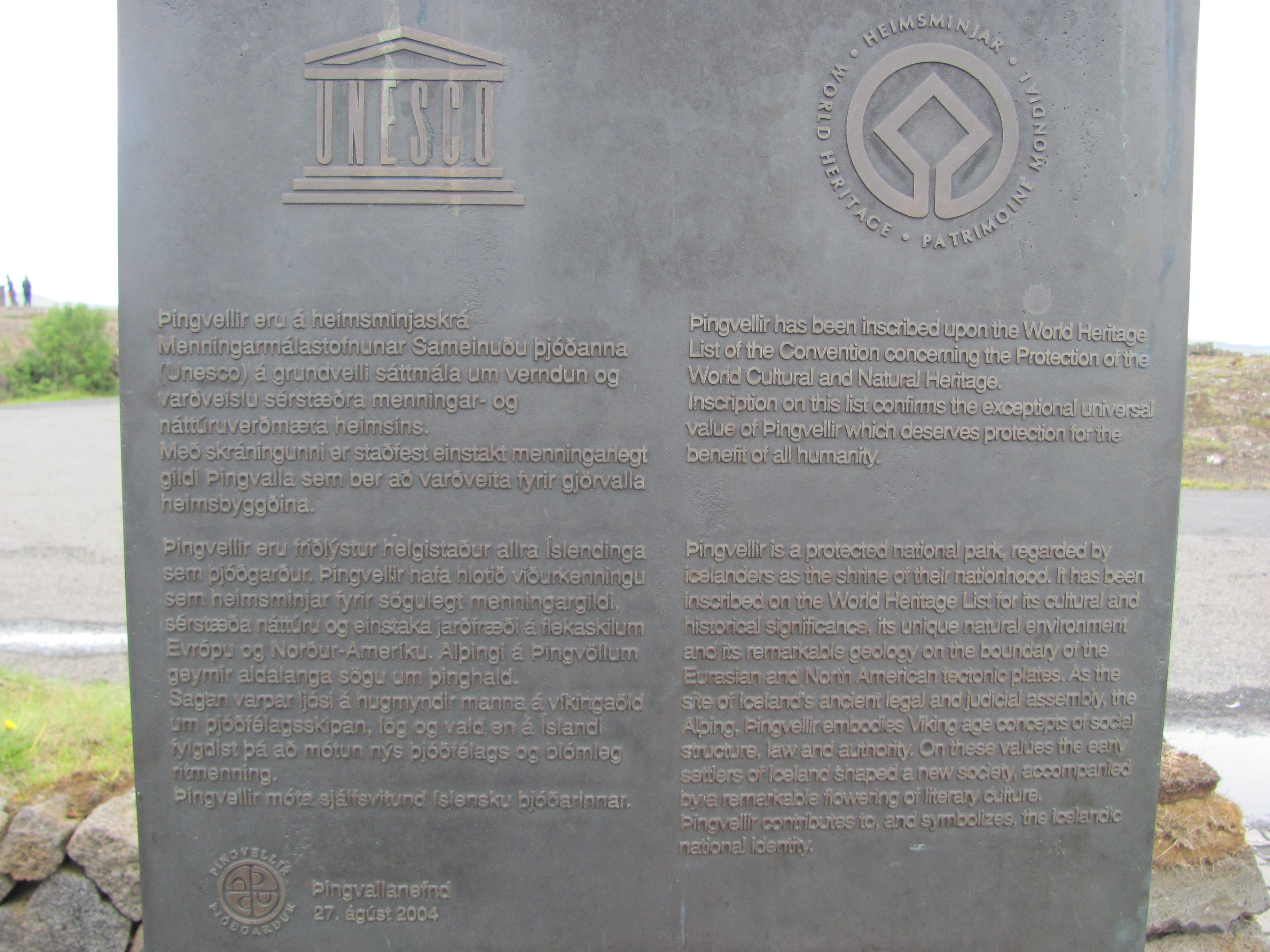 World-Heritage plaque Þingvellir